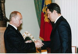 THE KREMLIN, MOSCOW.President of Russia Vladimir Putin, Sergei Abramov awards Order of Merit.